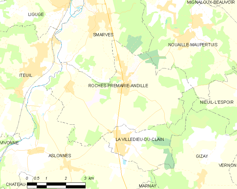 Map of French municipality Roches-Prémarie-Andillé